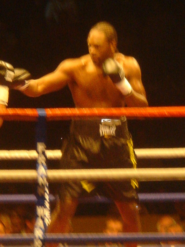 English boxer Audley Harrison